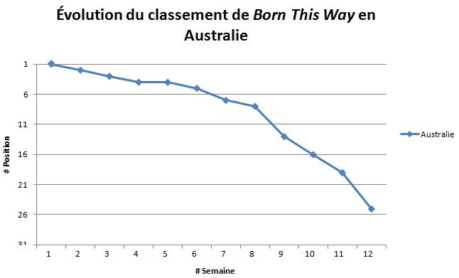 Evolution of Born This Way in Australia.